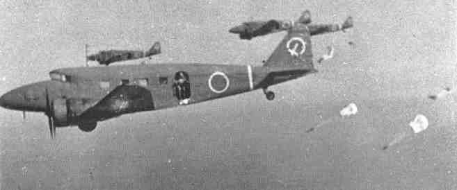 Nakajima Ki-34 in paratroopers training operation.